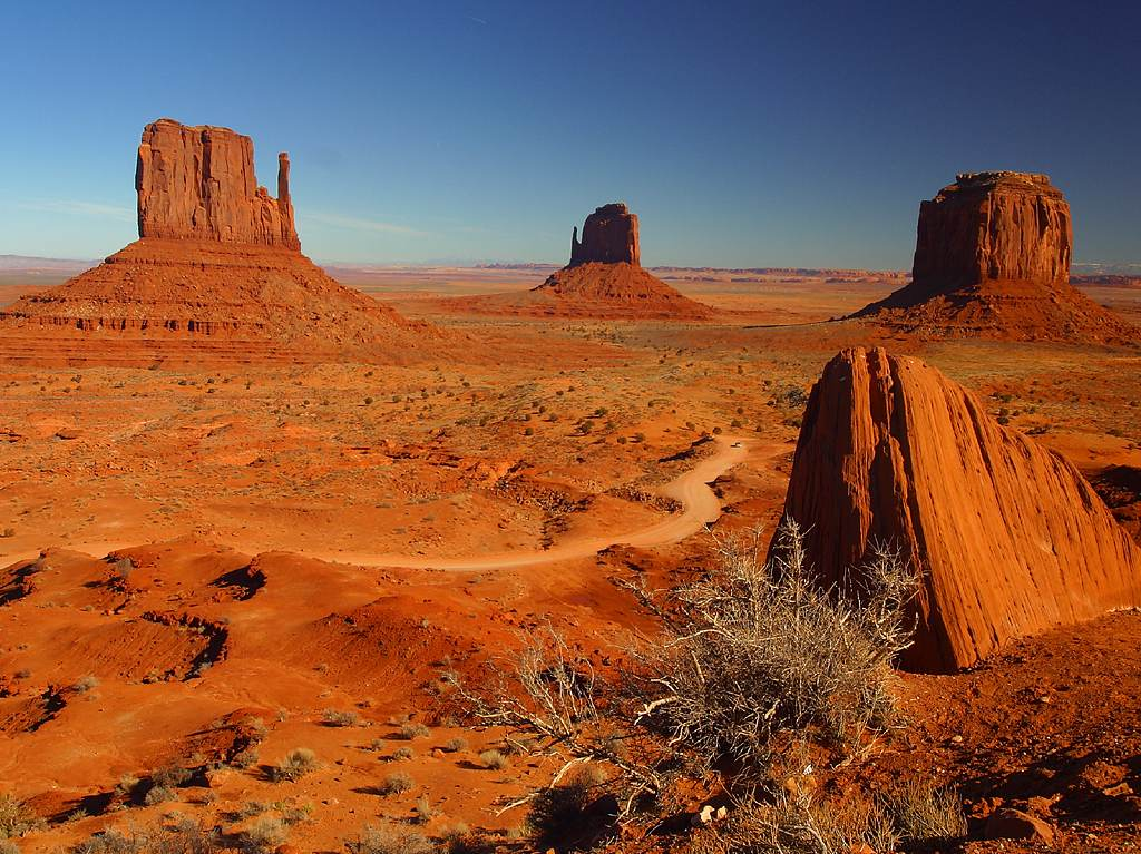 Monument Valley, Arizona. The 3 buttes lie in Arizona, adjacent the Arizona-Utah border. Merrick Butte is at right-(south). The West and East Mitten Buttes, (distance between, 1.5 miles (2 km)), are to left-(north). The (vertical)-De Chelly Sandstone, upon ‘skirts’ of Organ Rock Formation.